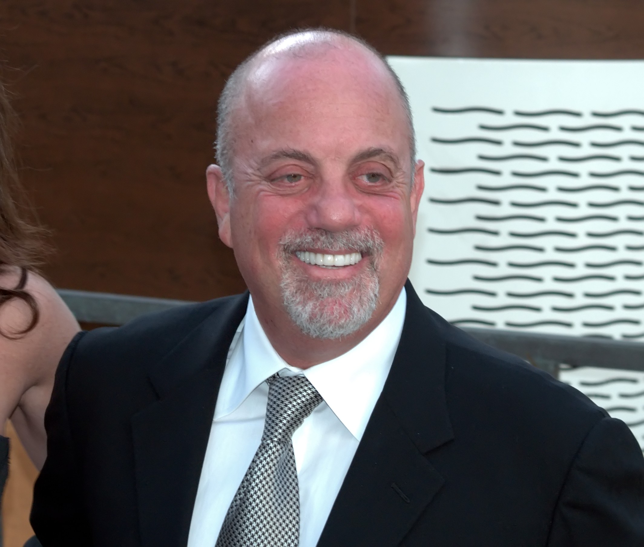 Billy Joel at the 2009 premiere of the Metropolitan Opera in New York City. Photographer's blog post about event and photograph.